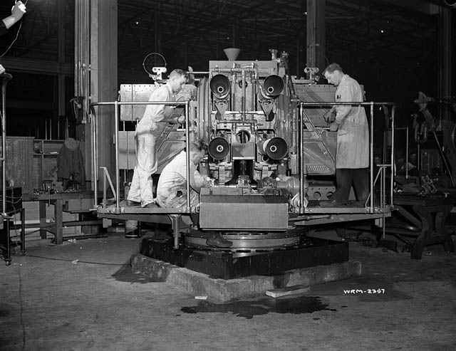 LAC caption : "Longueuil, Quebec. Workmen assemble a 2-pounder pompom gun mounting at the Dominion Engineering Works Ltd. plant. " Comment : This shows a front view of a 4-barrel ant-aircraft mounting of 2-pounder pom-poms. For left side view see File:2 pounder 4-barrel pom-pom Dominion Engineering left side 1942 LAC 3196183.jpg